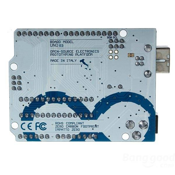 Arduino-compatible R3 UNO board produced in China and sold online by a Chinese web store.